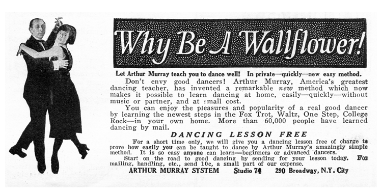 Advertisement for Arthur Murray's dance system. Science & Invention, January 1922. Volume 9 Number 9, page 857. Image:Science and Invention Jan 1922 pg794.png Table of Contents Image:Science and Invention Jan 1922 pg857.png The page numbers were on an annual basis, not per issue. This issue had pages 793 to 888. The magazine size is 8 by 11.5 inches (20 by 29 cm). Published by Experimenter Publishing Company Inc. 233 Fulton Street, New York, NY. Hugo Gernsback, President; Sidney Gernsback, Treasure; R. W. DeMott, Secretary. Scanned on an Epson Perfection 1240U at 300 dpi with half-tone de-screening enabled and stored as TIFF. The image was cropped and touched up in Adobe Photo Elements 5.0. This copy saved as a 150 dpi PNG.